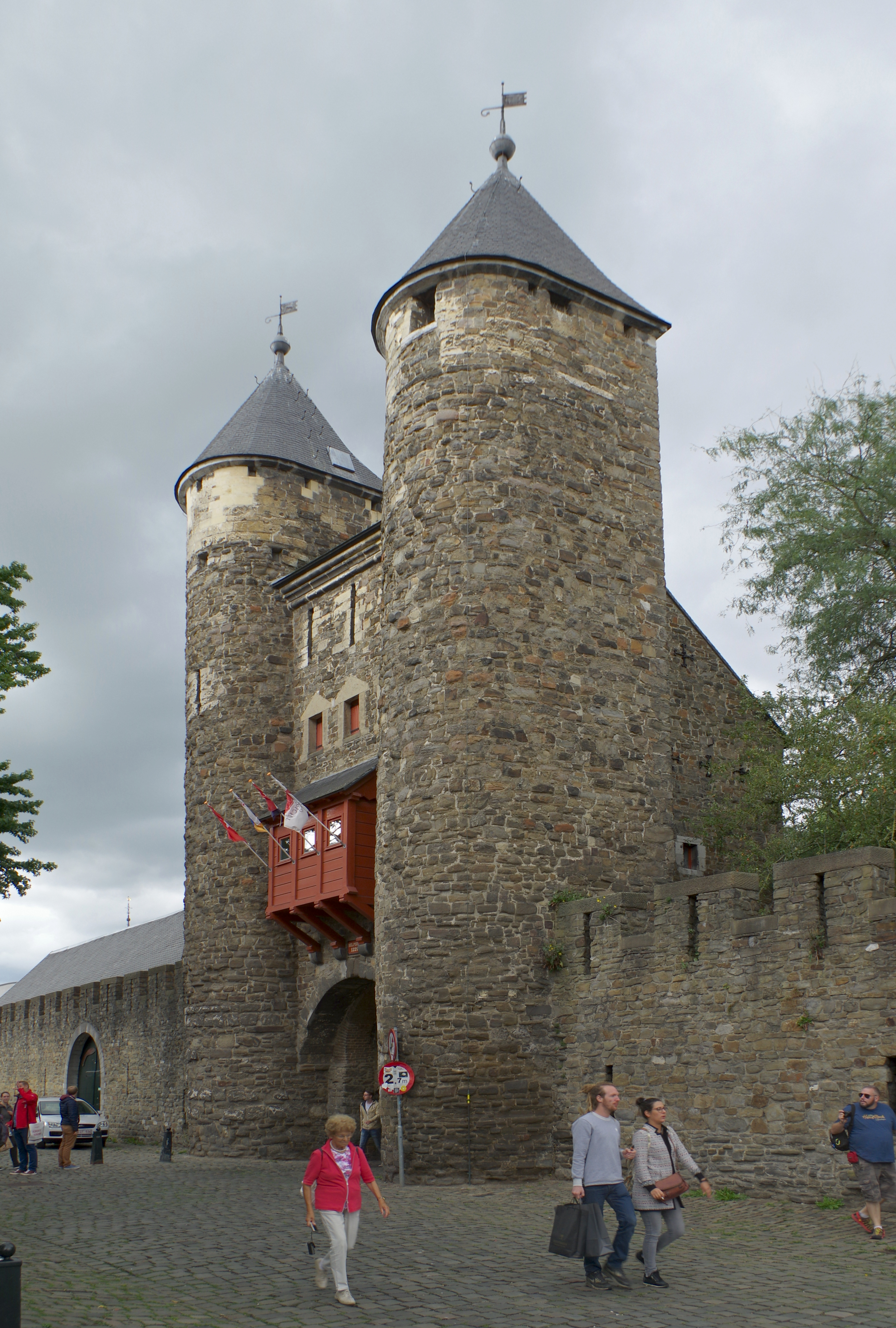 Maastricht, Helpoort